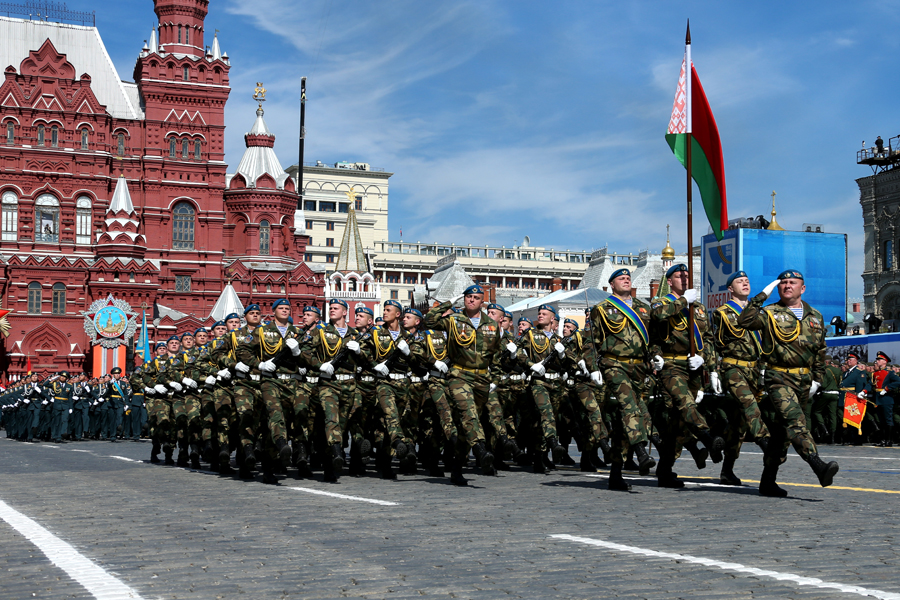 Belarusian Special Forces participating in Parade in Moscow in 2015.